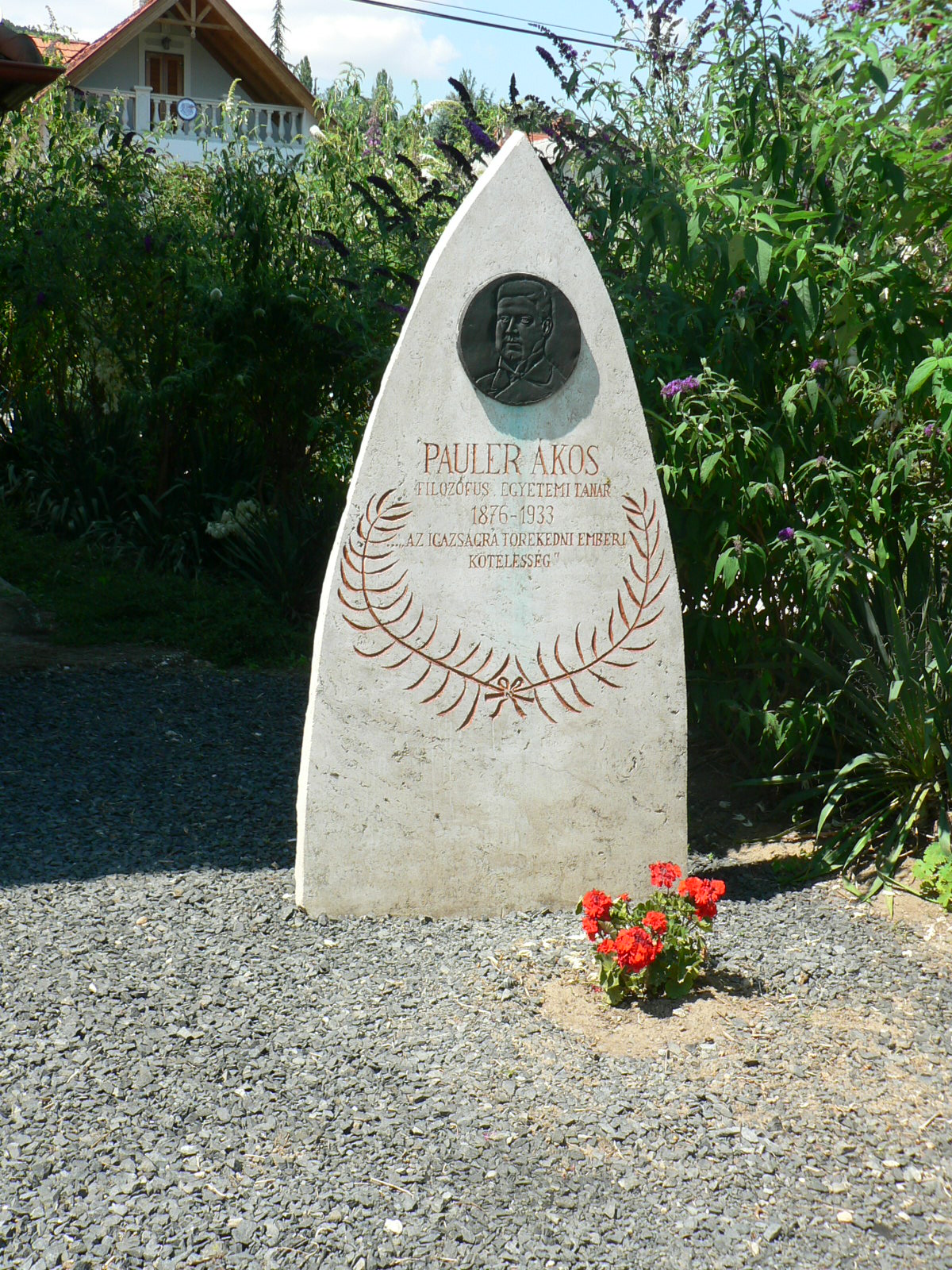 Pauler Ákos emlékműve